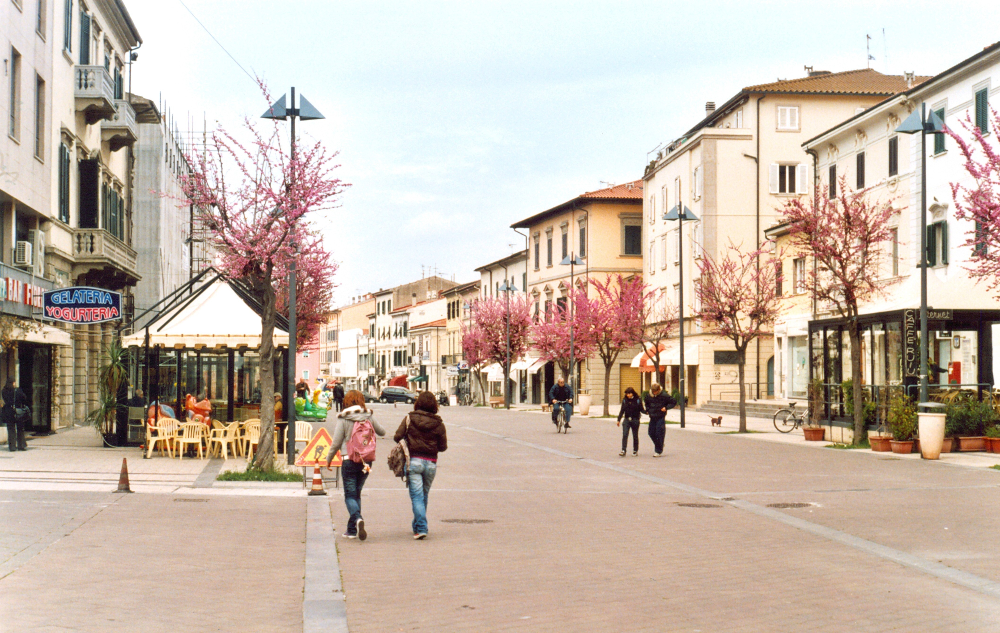 Center of Cecina, Province Livorno, Italy